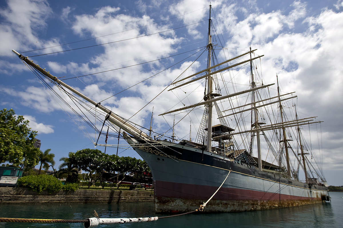 She will sail on.